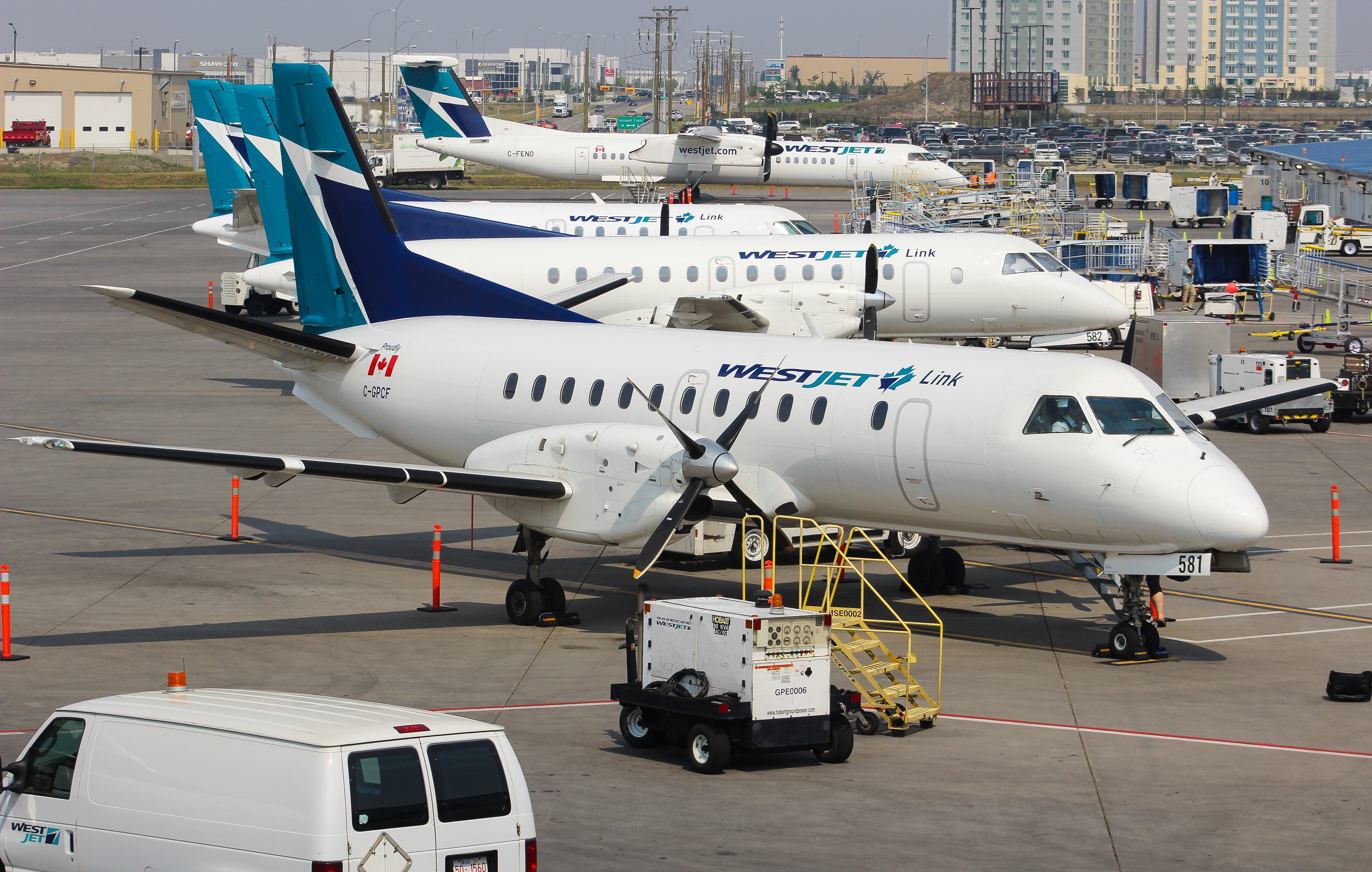 Parked At YYC